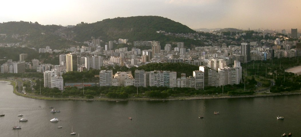 Viúva hill and buildings over Rui barbosa avenue, in Flamengo, Rio de Janeiro, Brazil